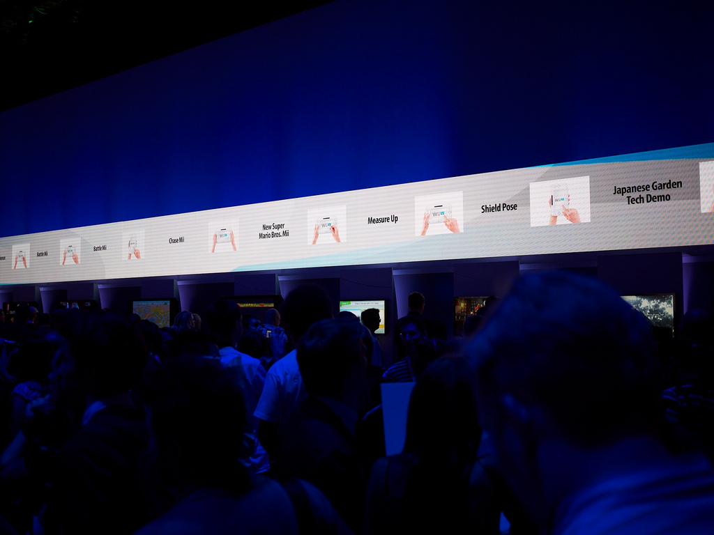 The Wii U shown at E3 2011, demonstrating the many various options of the controller